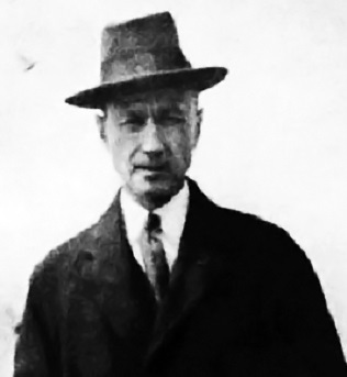 Charles Edward Ives, around 1913 This photo from around 1913 shows Ives in his "day job": he was the director of a successful insurance agency. Source: [1]